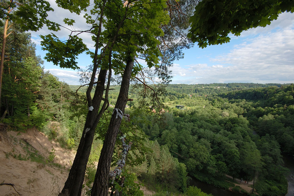 View from Puckoriu atodanga, Vilnius, Lithuania